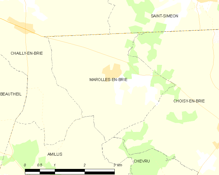 Map of French municipality Marolles-en-Brie